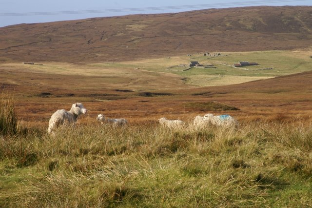 Bouster Sheep on the roadside with the Easter Burn of Bouster and the abandoned settlement of Bouster beyond. Yell (island), Shetland